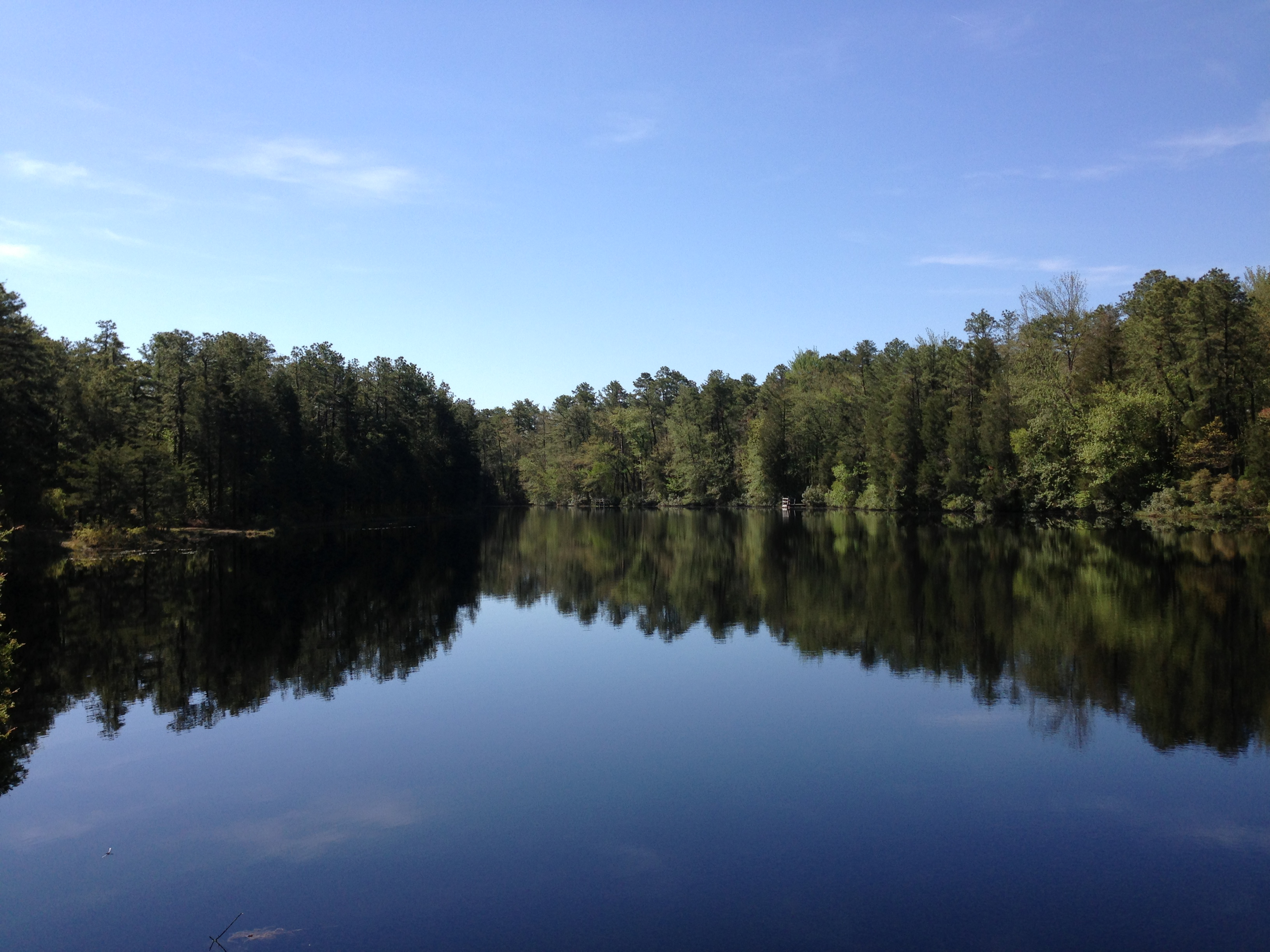 Pakim Pond along the Mount Misery Trail in Brendan T. Byrne State Forest, New Jersey